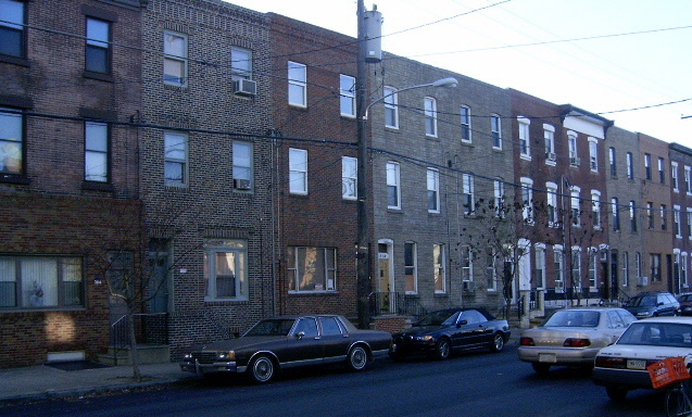 Cropped version of photograph of South Philadelphia rowhouses